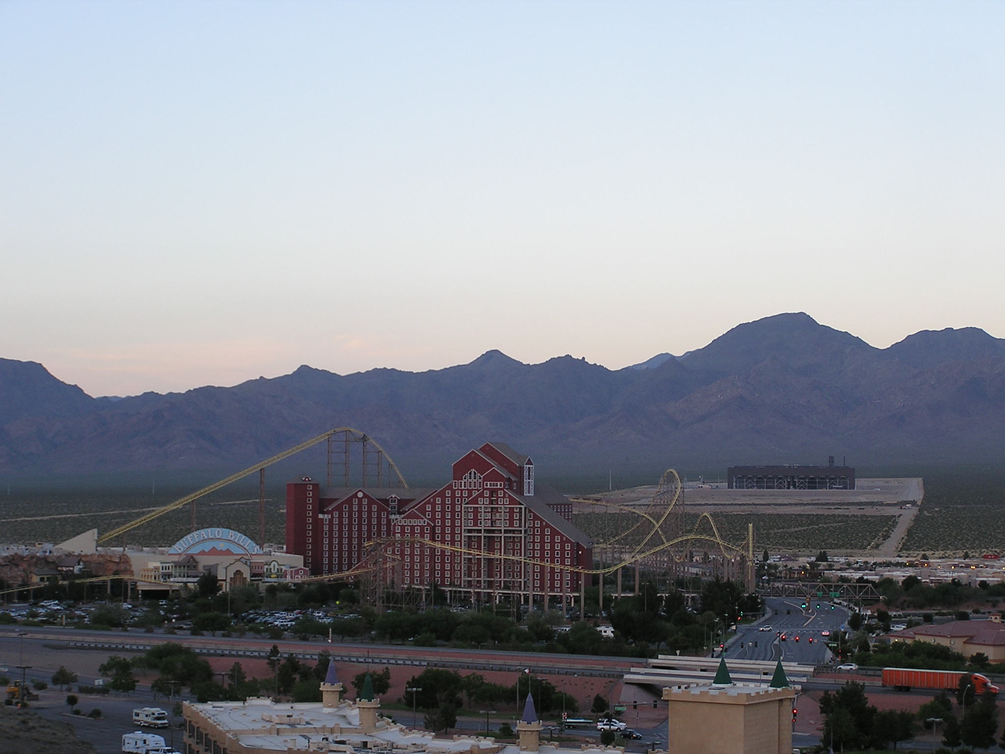 Buffalo Bill's Casino located in Primm, Nevada at the border between Nevada and California. The top of Whiskey Pete's is at the bottom of the image with I-15 passing between the two casinos. The Desperado rollercoaster can be seen wrapping around the buildings of Buffalo Bill's.